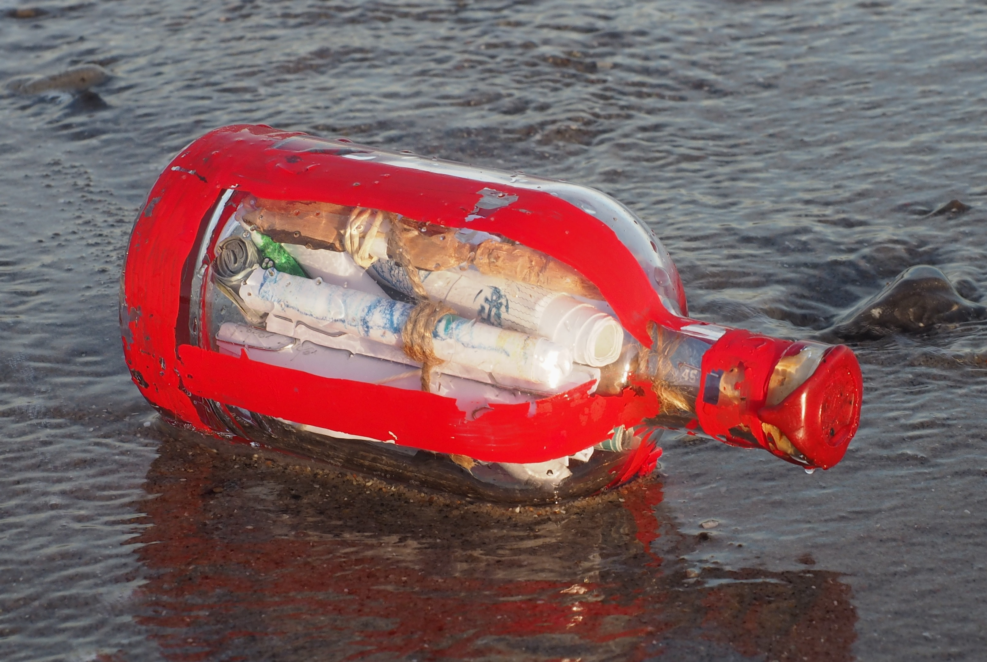 Messages in a bottle